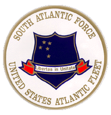 Emblem of the U.S. Commander Southern Atlantic Force (USCOMSOLANT), U.S. Navy.